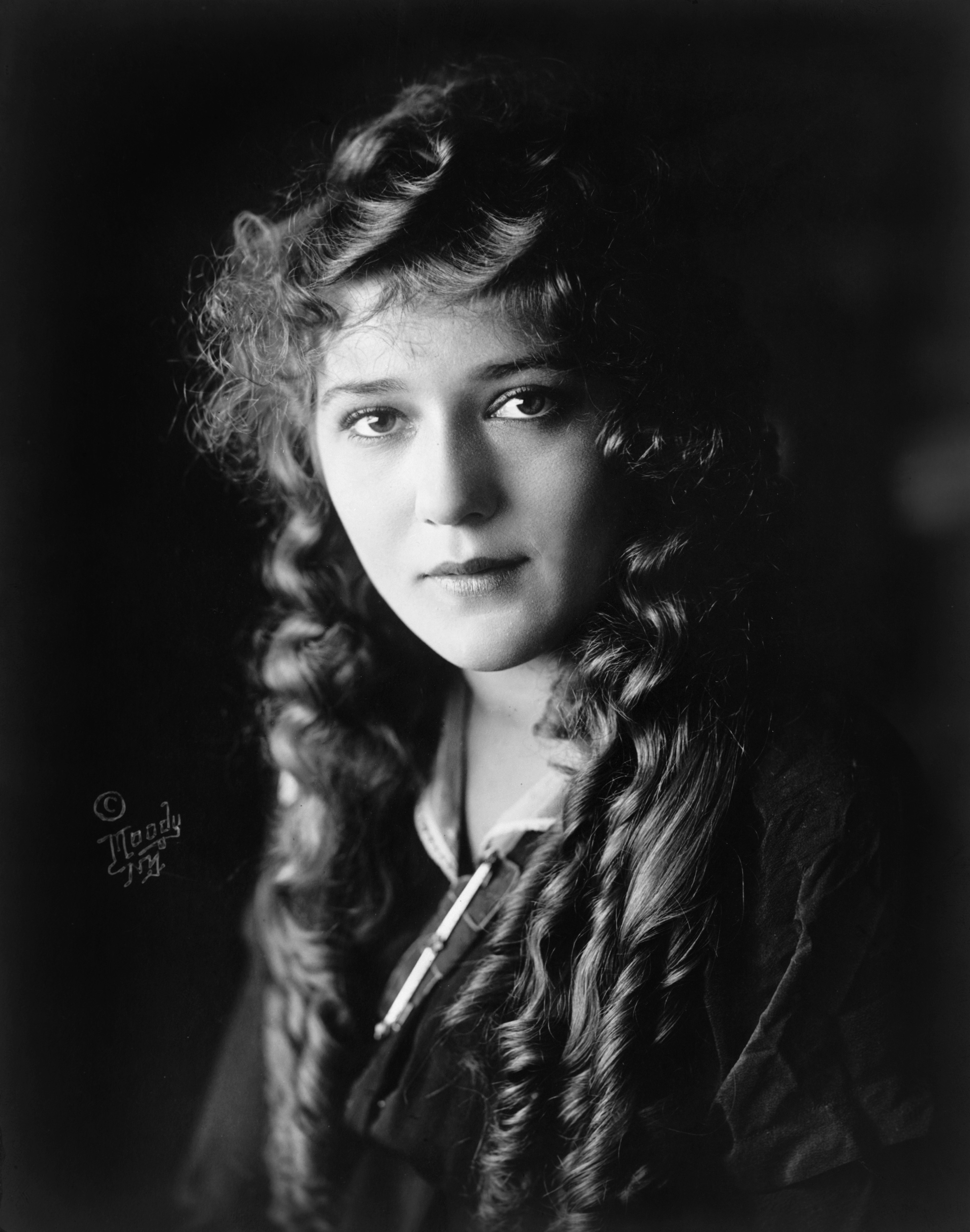 Mary Pickford, head-and-shoulders portrait, facing front / Moody, N.Y.